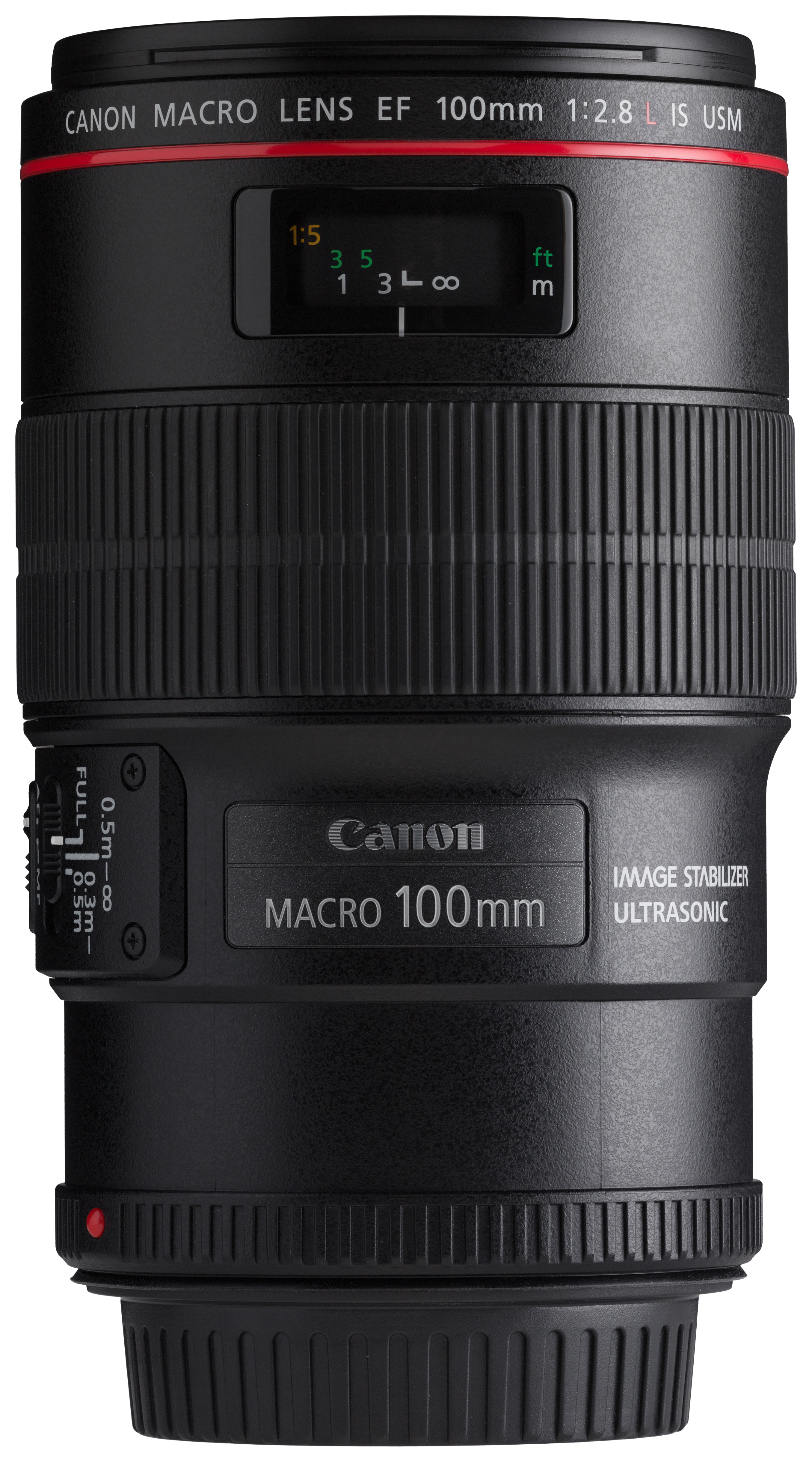 Canon 100 mm L macro lens for DSLR cameras